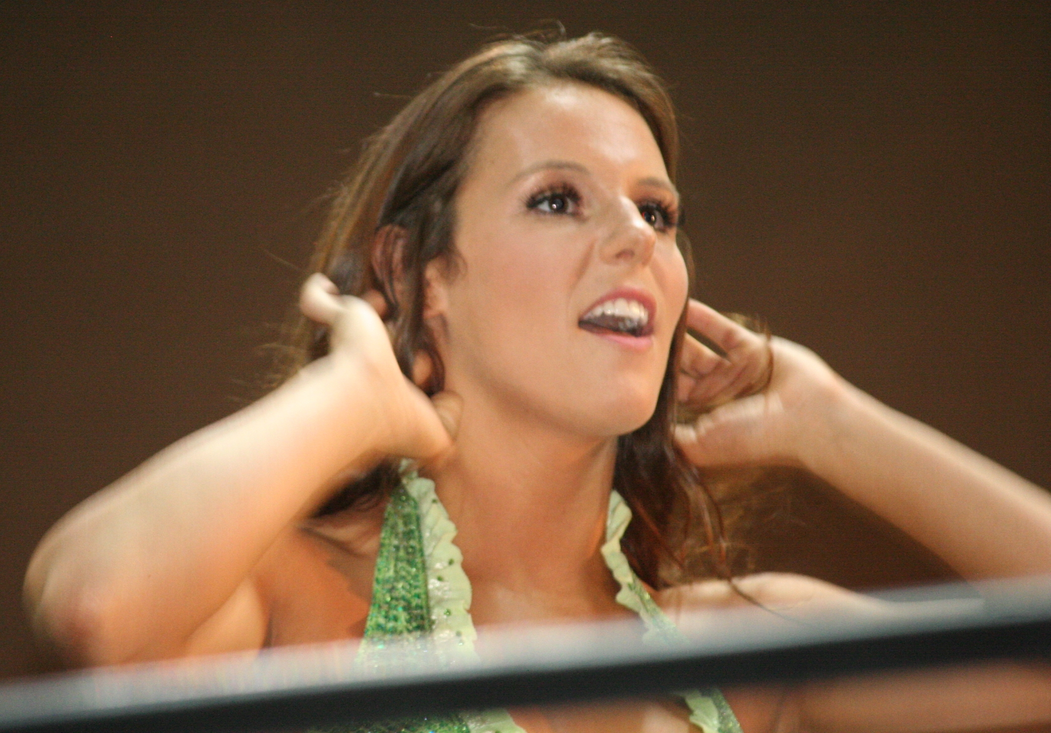 Heather Patera vs. Audrey Marie